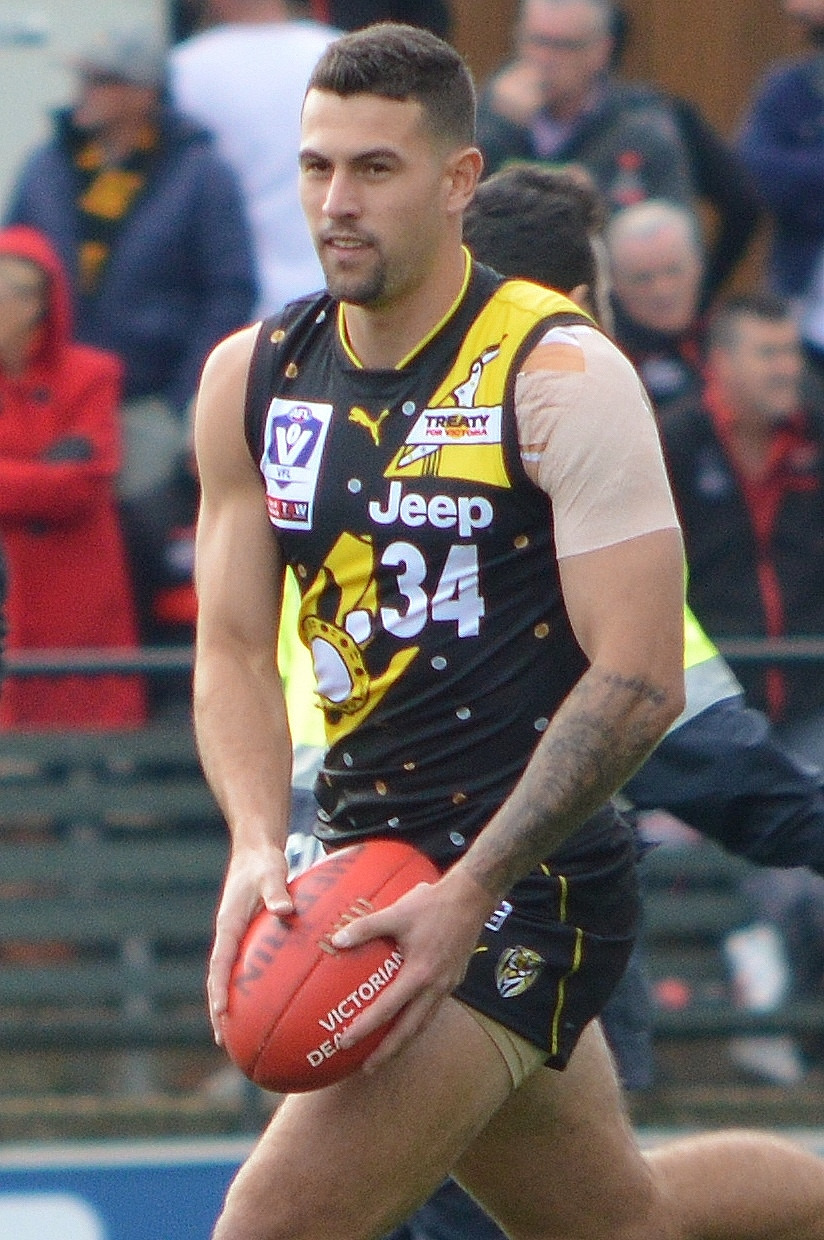 Jack Graham with Richmond in the round 8 VFL match against Essendon at Punt Road Oval on 25 May 2019.